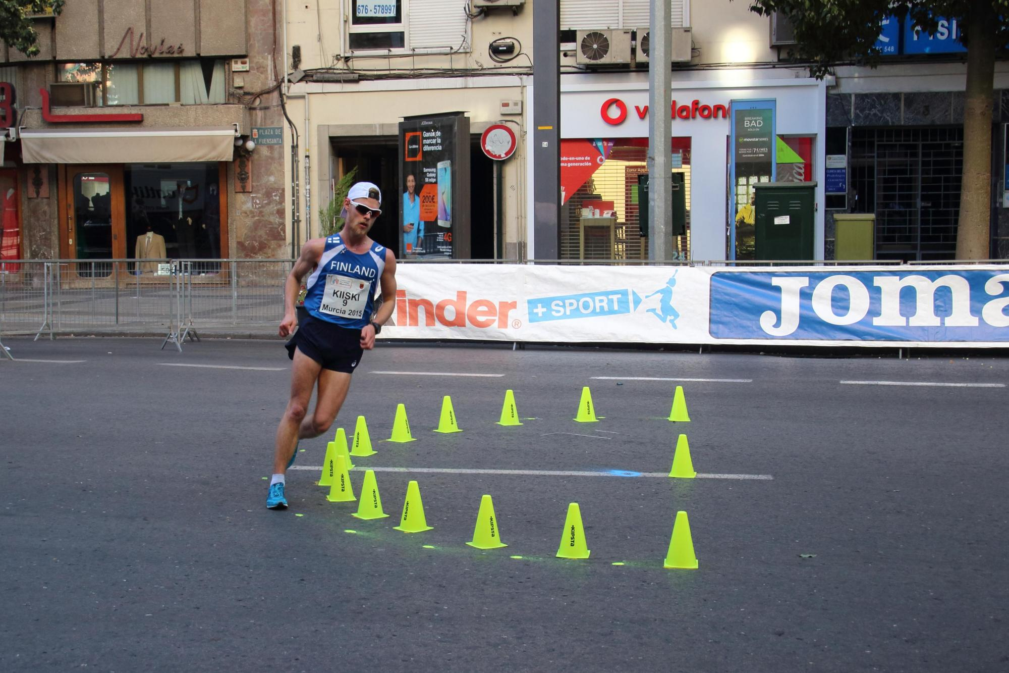 9-Eemeli Kiiski (FIN) in the European Cup Race Walking 2015 (Murcia, Spain).